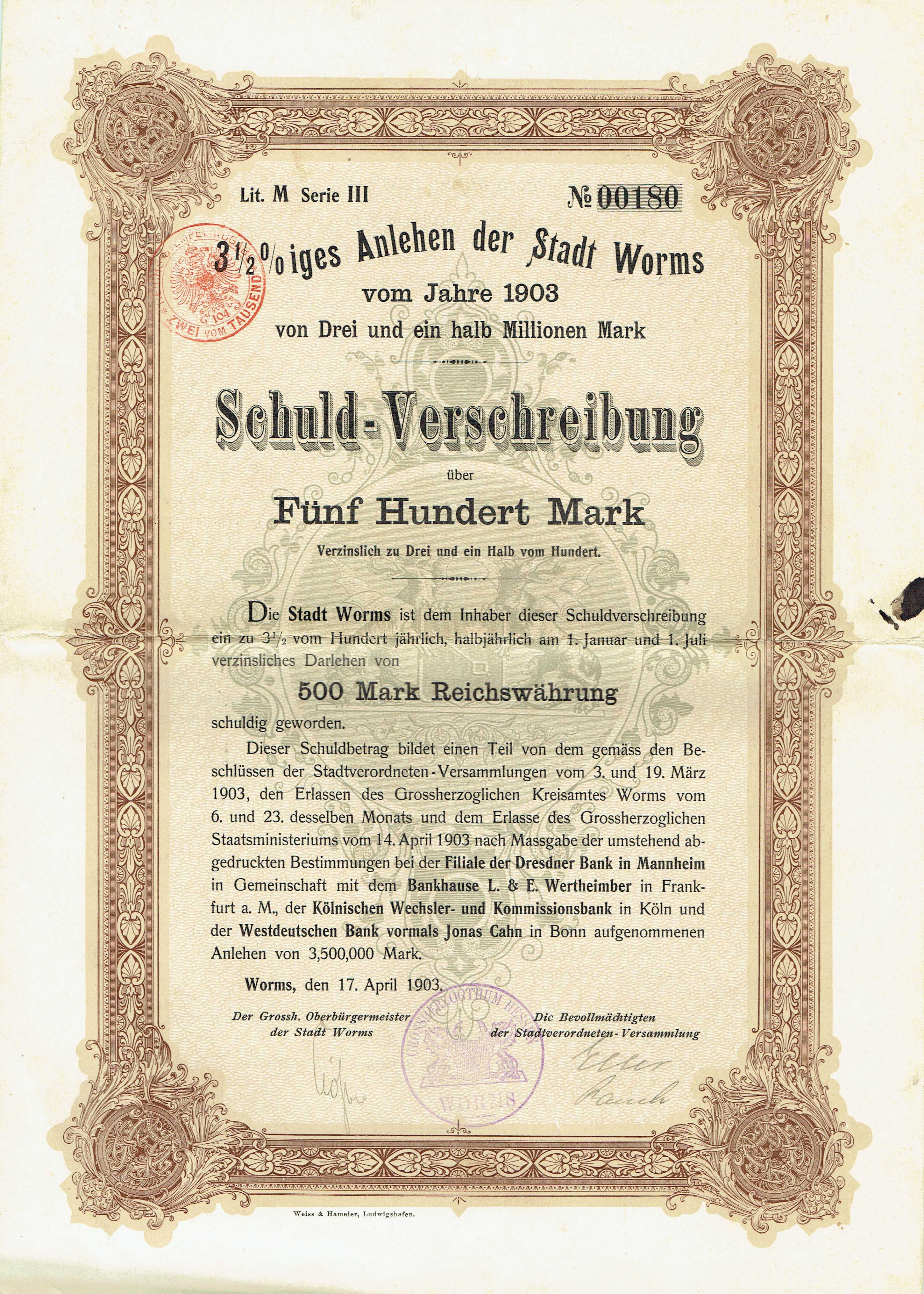 Bond of the City of Worms, issued 17. April 1903